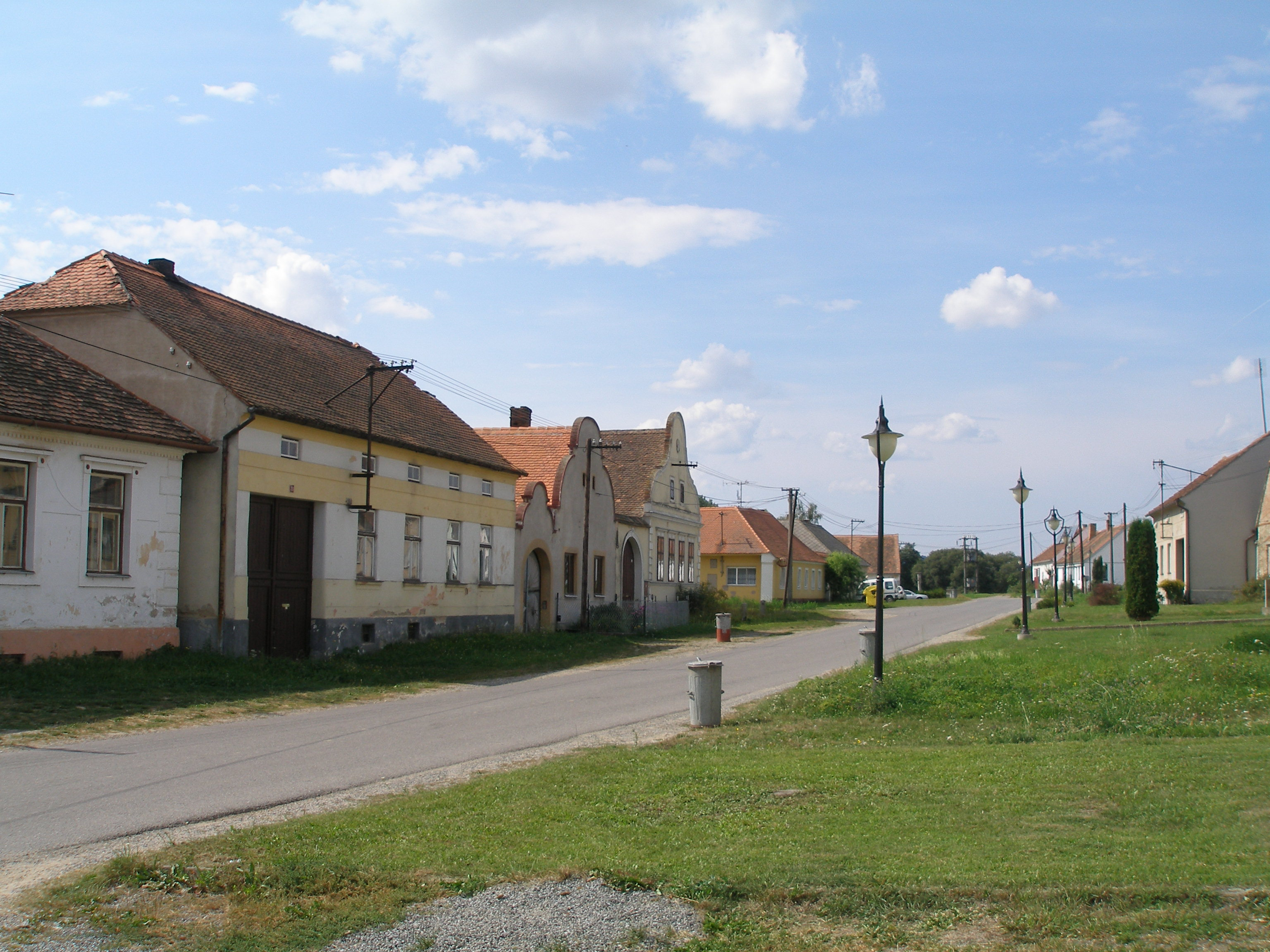 Dančovice - the Western part of the square